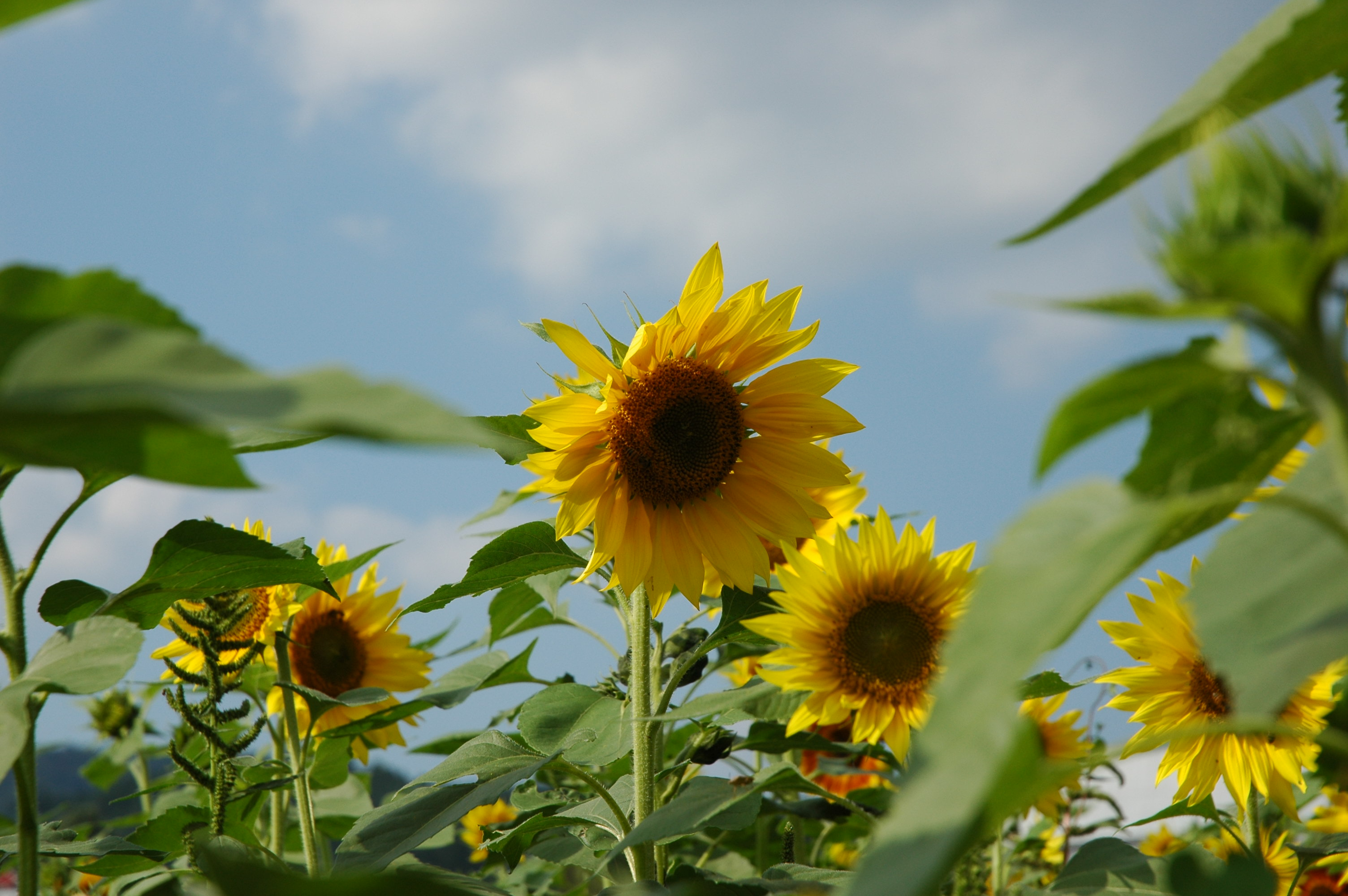 Sunflowers.